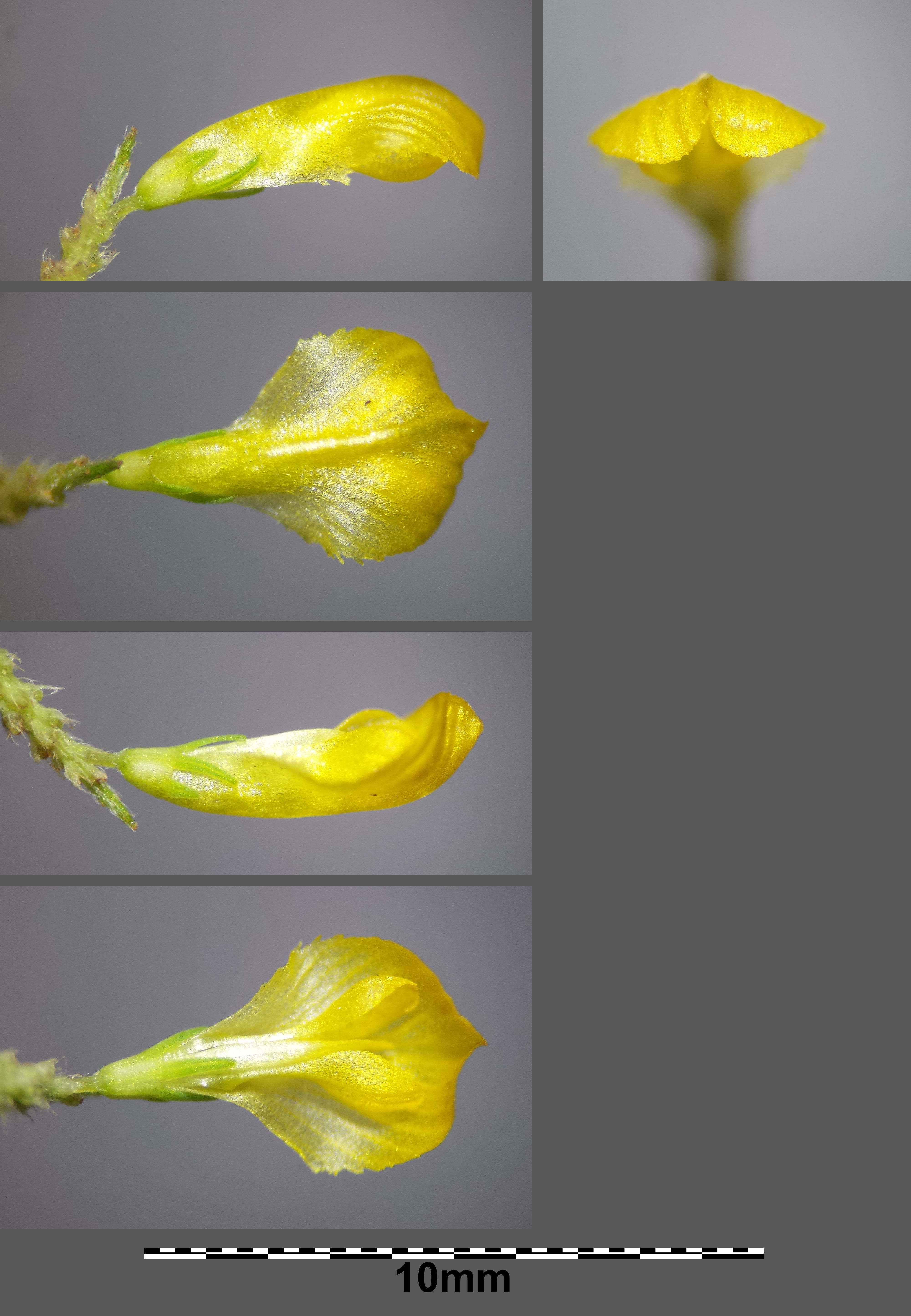 Flower Taxonym: Trifolium aureum ss Fischer et al. EfÖLS 2008 ISBN 978-3-85474-187-9 Location: near Altmelon, district Zwettl, Lower Austria - ca. 900 m a.s.l. Habitat: border of a wood